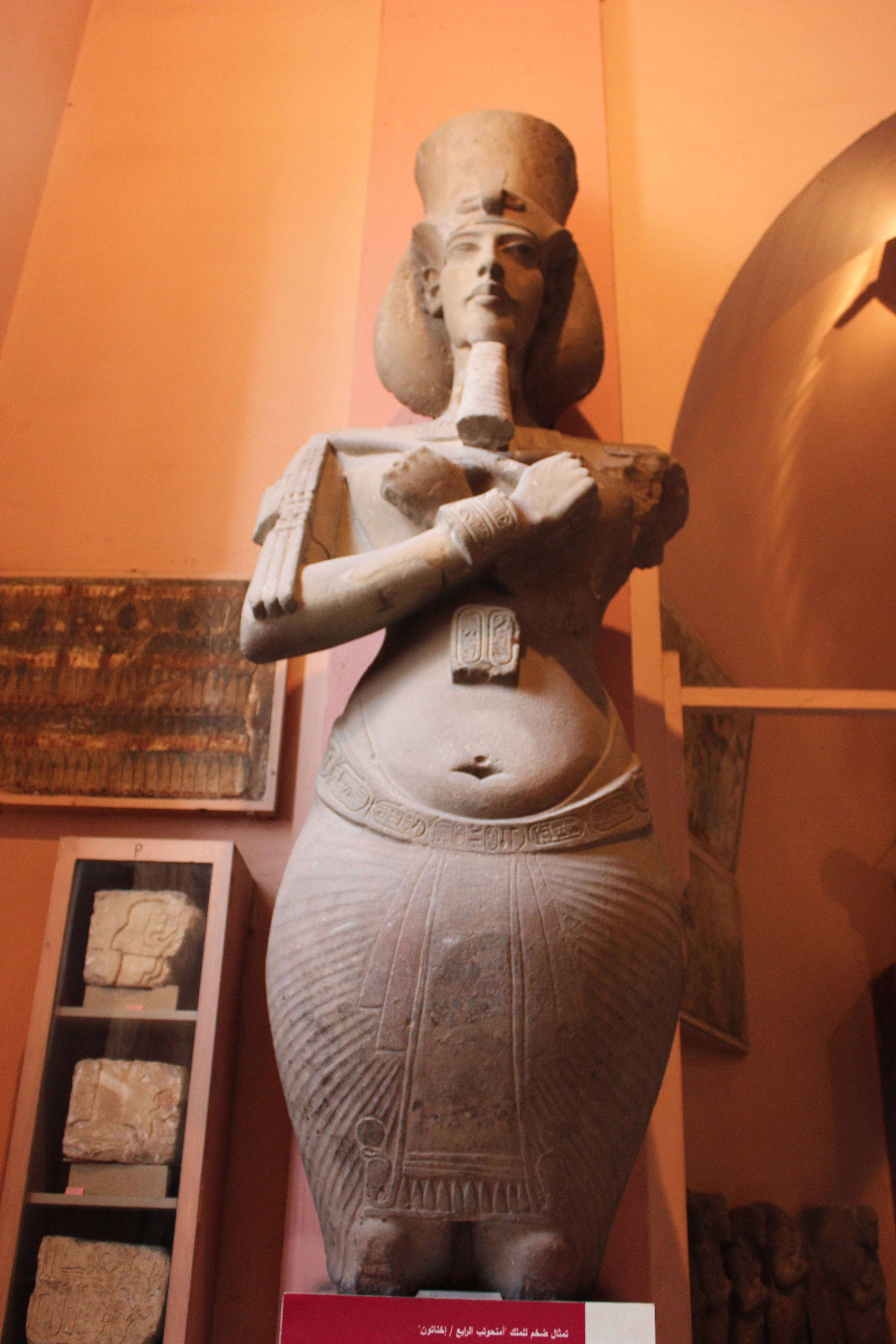 Colossal statue of King Amenhotep IV/ Akhenaten, Egyptian Museum in Cairo, Egypt.)